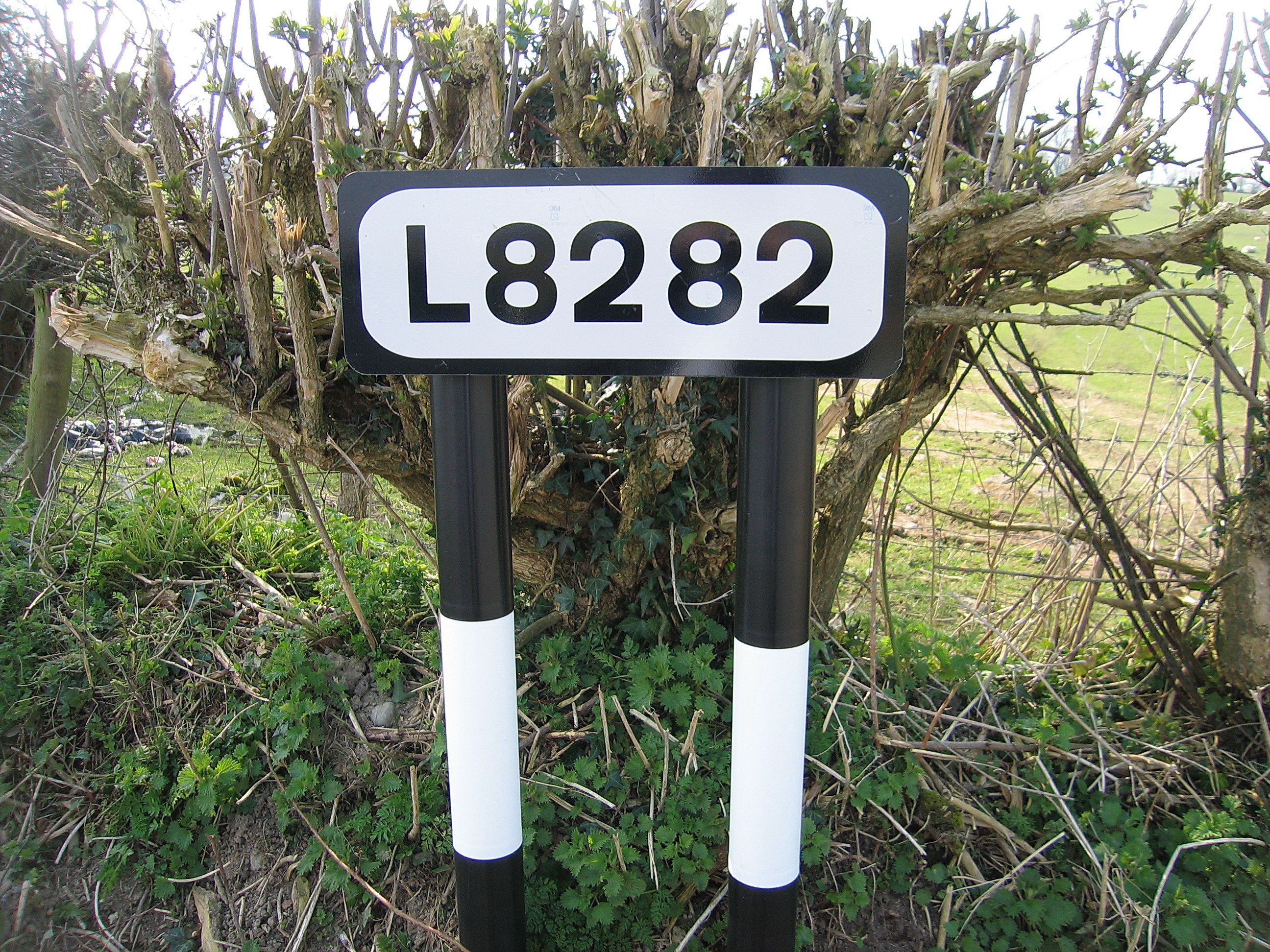 Brand new in 2007; a country lane gets a number where the L8282 local road meets the R747 regional road at Lackareagh, north of Baltinglass in County Wicklow, Ireland.